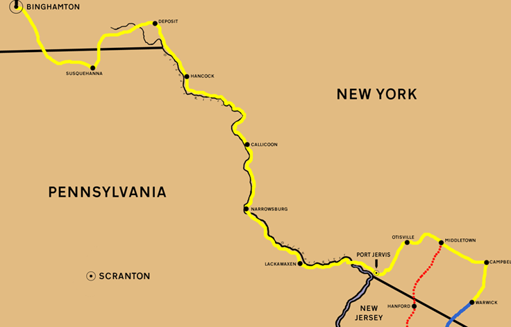 Map of the middle section of the route of the New York, Susquehanna and Western Railway for the corresponding article.